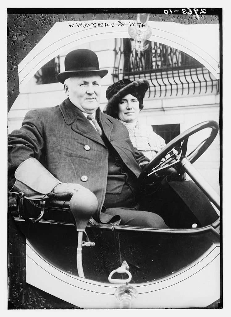 Bain News Service,, publisher. W. W. McCredie and wife [between ca. 1910 and ca. 1915] 1 negative : glass ; 5 x 7 in. or smaller. Notes: Title from unverified data provided by the Bain News Service on the negatives or caption cards. Forms part of: George Grantham Bain Collection (Library of Congress). Format: Glass negatives. Repository: Library of Congress, Prints and Photographs Division, Washington, D.C. 20540 USA, General information about the Bain Collection is available at Persistent URL: Call Number: LC-B2- 2963-10